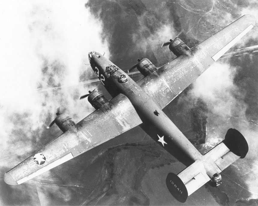 A U.S. Army Air Force Consolidated B-24E-1-DT Liberator (s/n 41-28411) built by Douglas aircraft at Tulsa, Oklahoma (USA). The B-24E was only used for training.